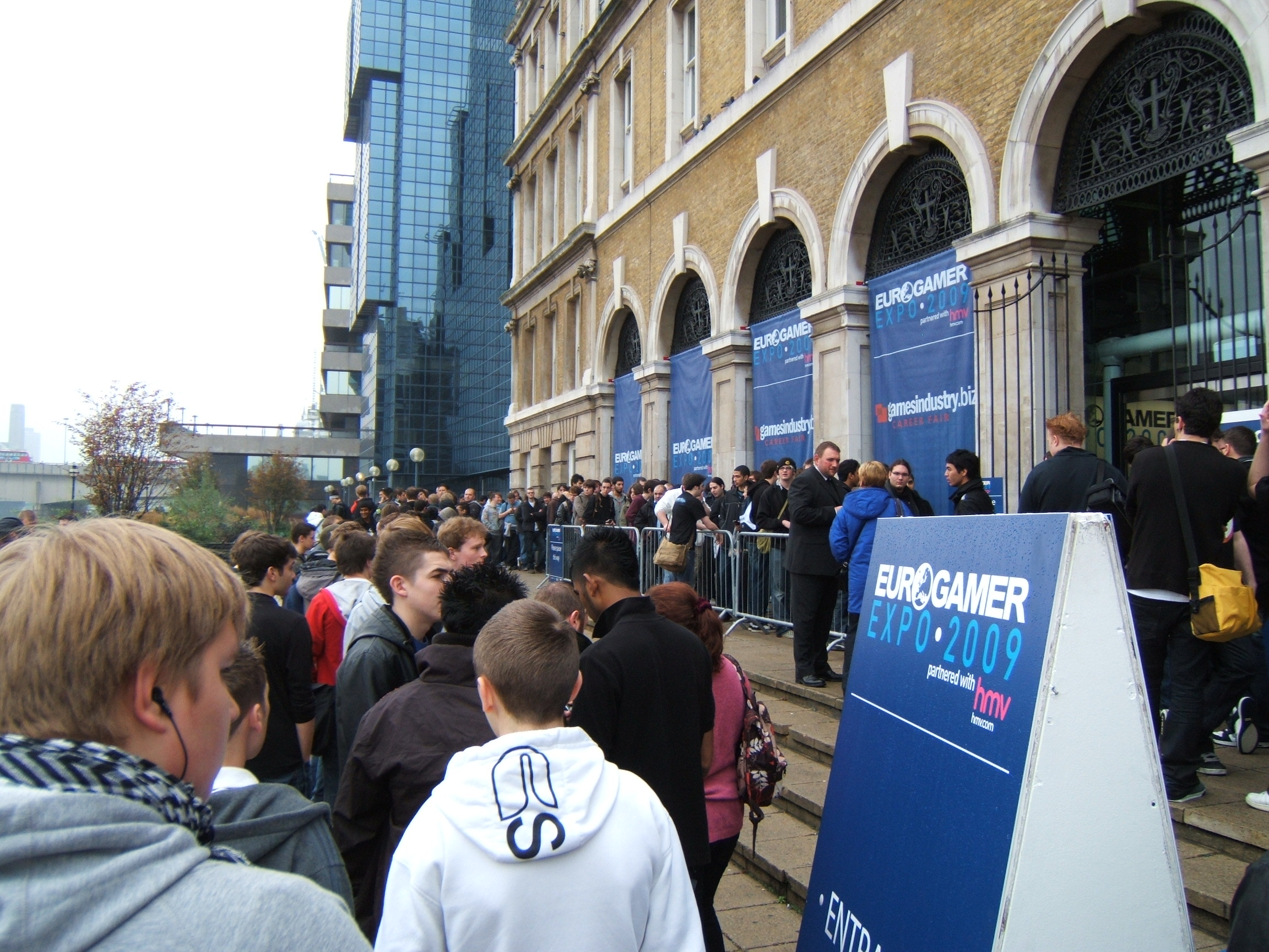 Eurogamer Expo 2009, outside the main entrance at Old Billingsgate Market